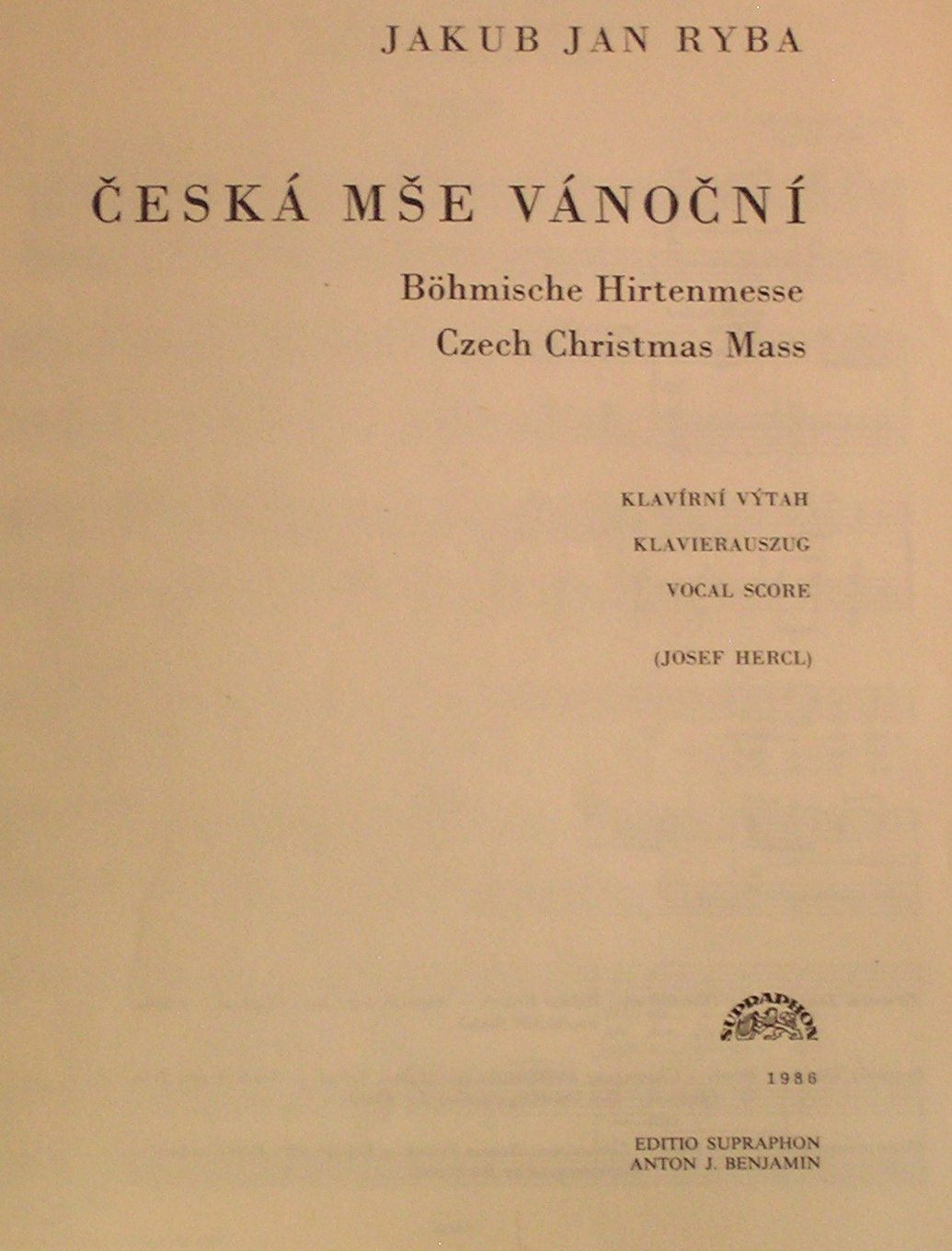 Title page of Czech Christmas Mass (Sheet music) of Jakub Jan Ryba